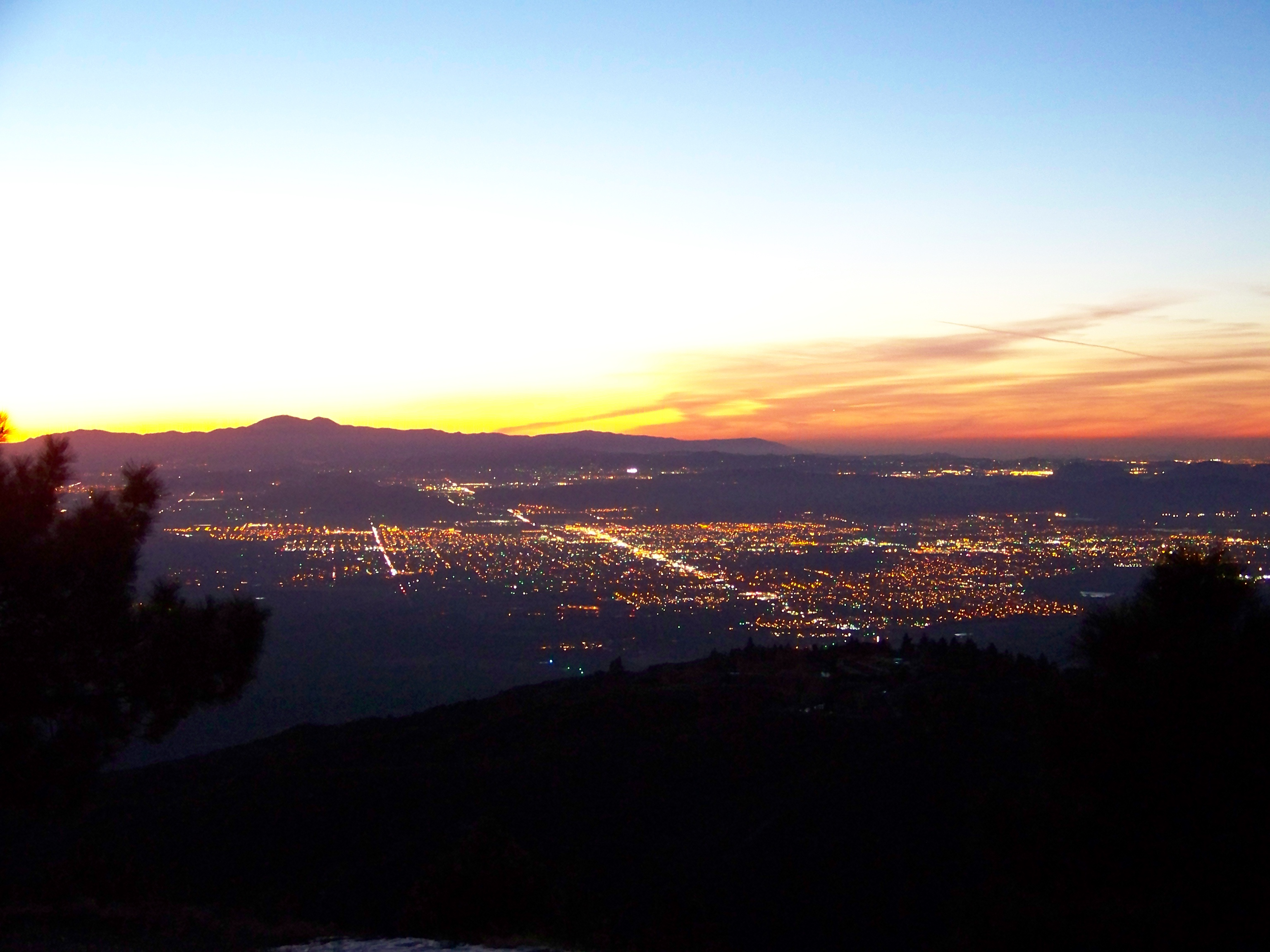 Picture of the San Jacinto Valley from a view point in Idyllwild